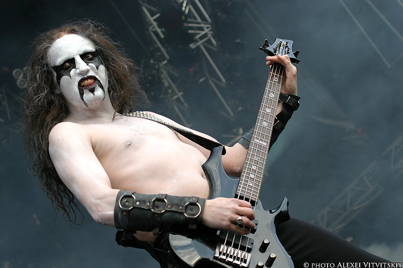 Apollyon during the Immortal concert at the 2007 Tuska Open Air Metal Festival.